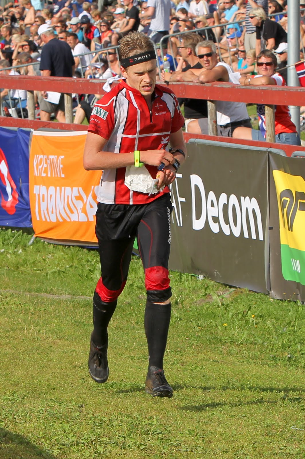 Tue Lassen at World Orienteering Championships 2010 in Trondheim, Norway